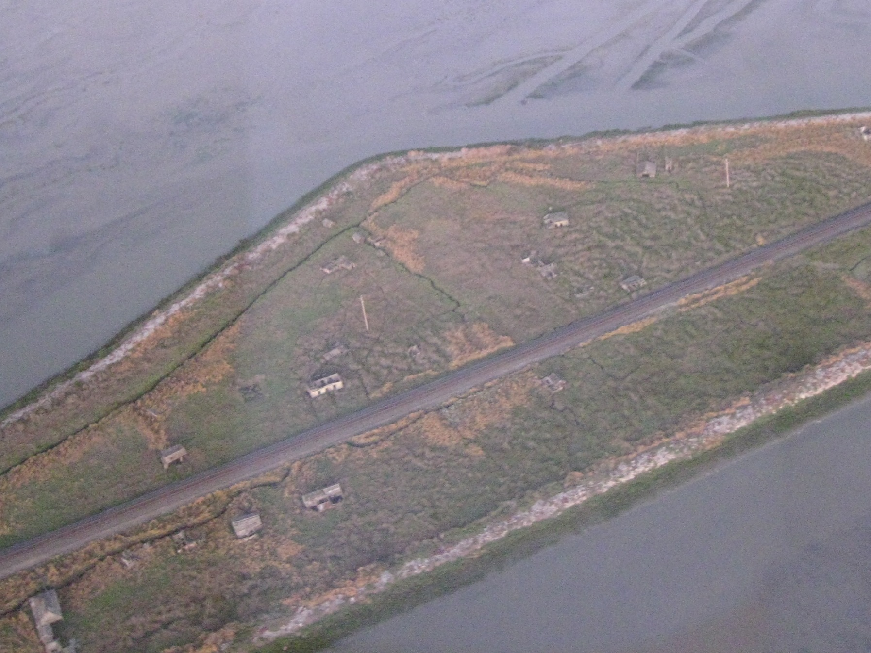 Aerial photo of the ghost town, Drawbridge California.